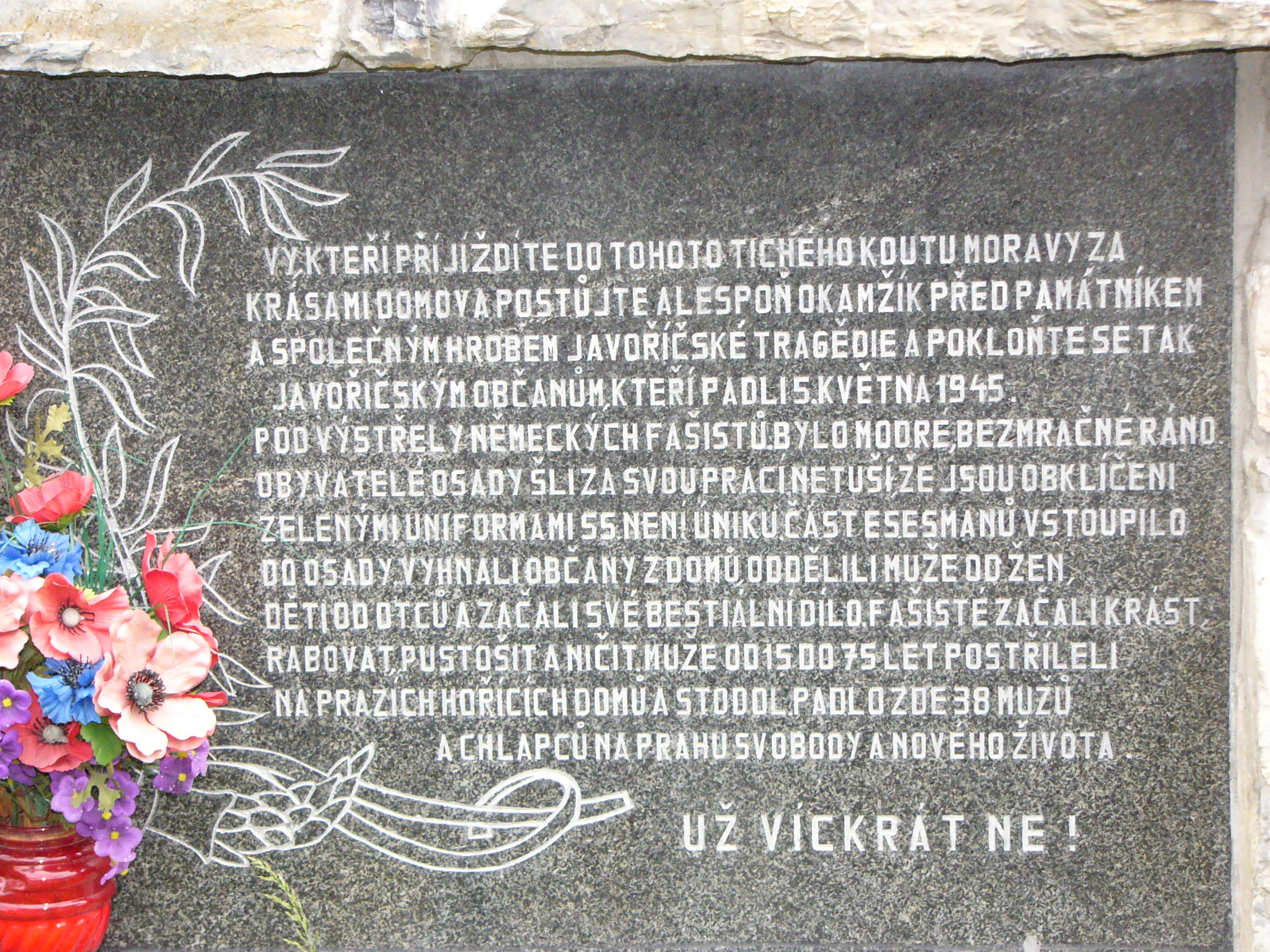 memorial of victims of world war II in Javoříčko, Czech Republic